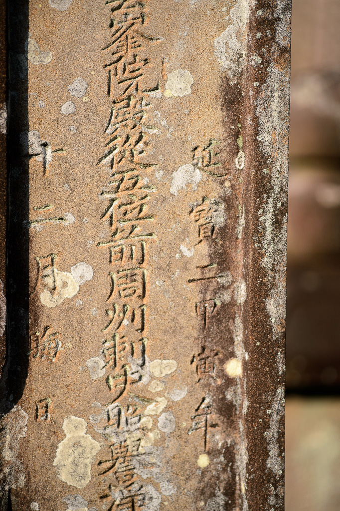 Close up of a gravestone at the Konkaikomyou-ji Temple (金戒光明寺) in Kyoto, Japan, showing the date written down the right side as "延寳二甲寅年" (Enpō 2, 1674). "延寳" is the original way to write what is now written "延宝". (The "甲寅" are from the Sexagenary cycle)